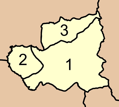 Map of Chang Klang district, Nakhon Si Thammarat province, Thailand, with the communes (tambon) numbered. Chang Klang (ช้างกลาง) Lak Chang (หลักช้าง) Suan Khan (สวนขัน)